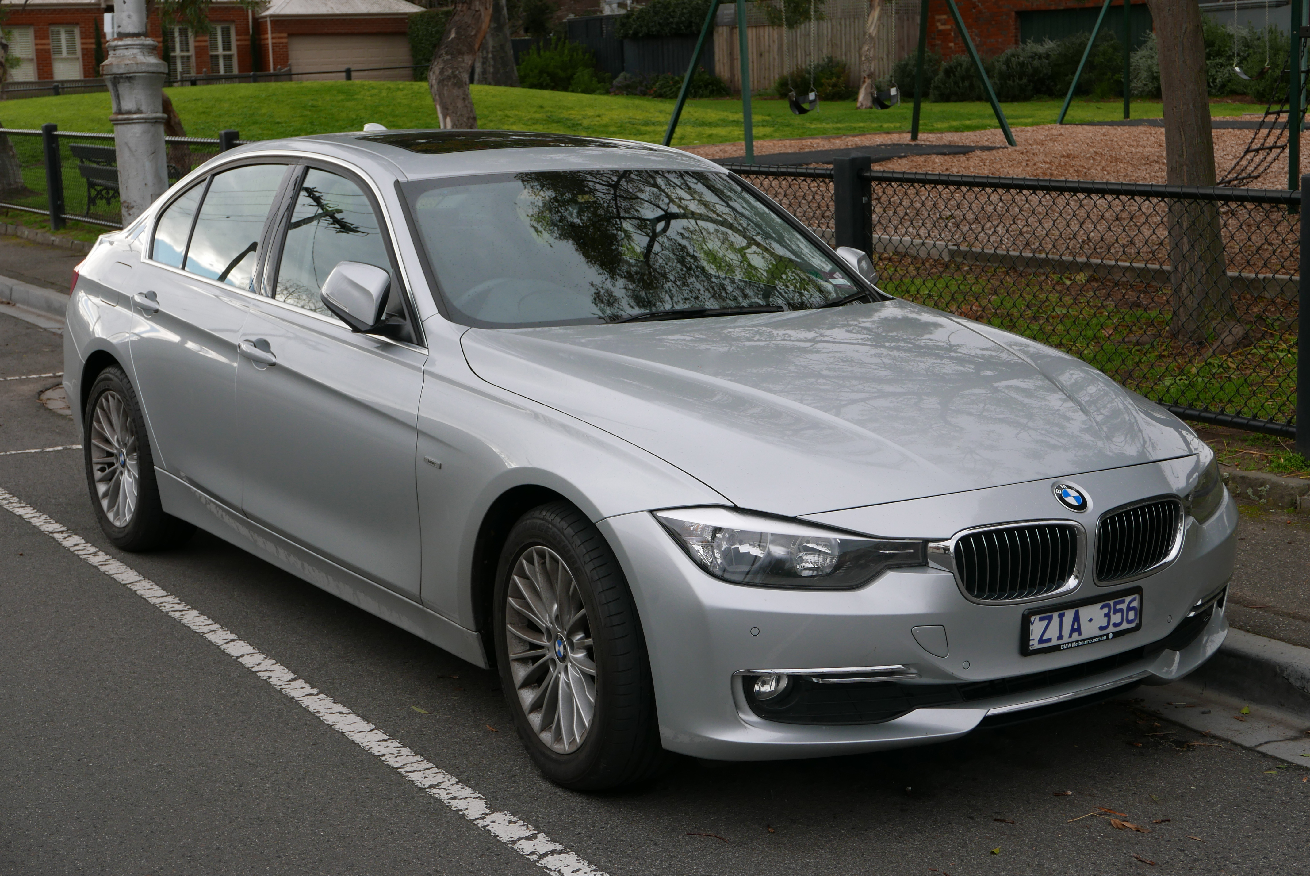 2012 BMW 320d (F30 MY13) Luxury Line sedan. Photographed in Hawthorn, Victoria, Australia. Vehicle registration enquiry resultsJurisdictionVictoriaRegistrationZIA356Chassis codeWBA3D32060F284258Engine code79928060Compliance date2012-09Year of manufacture2012